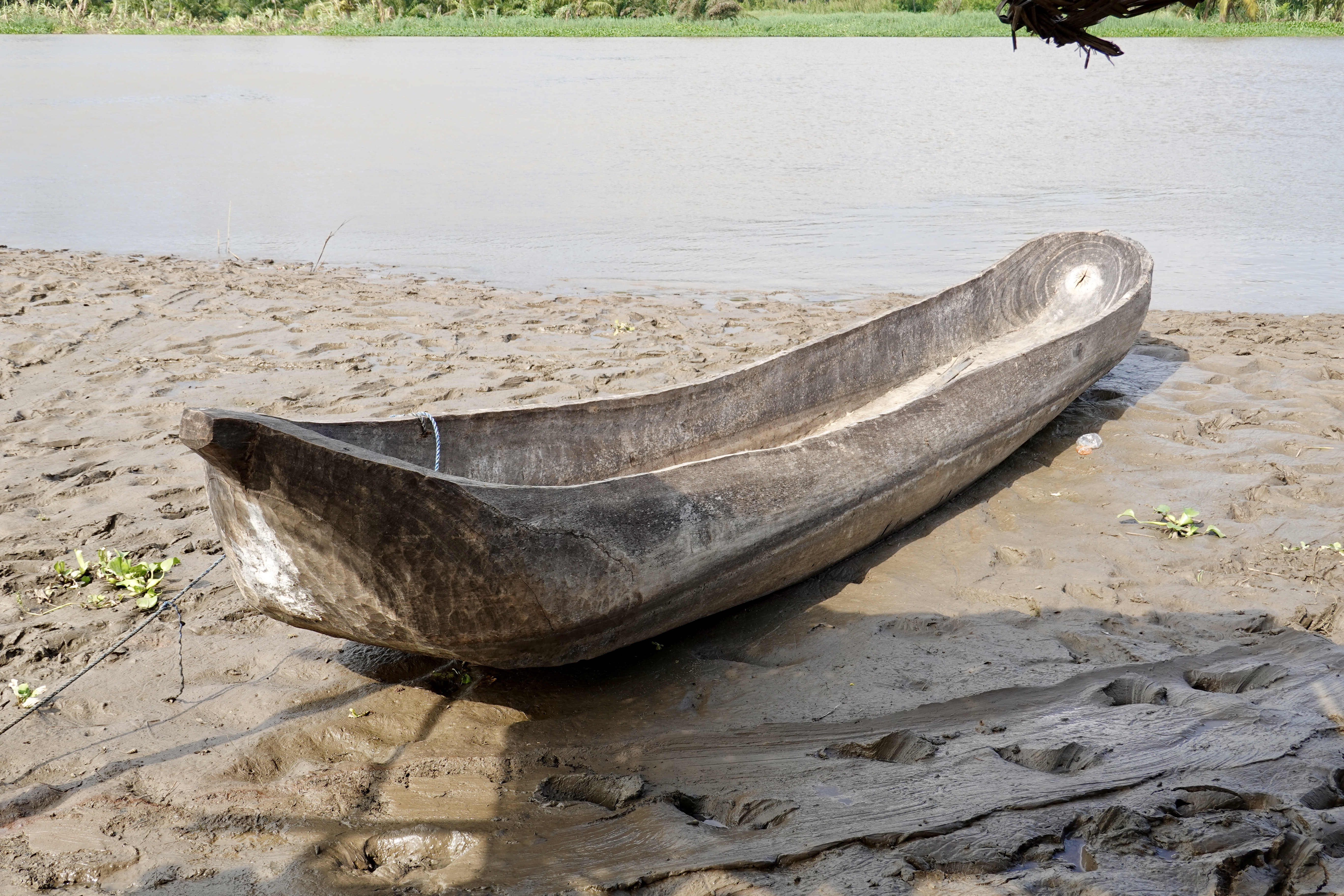 Pirogue, strand, river